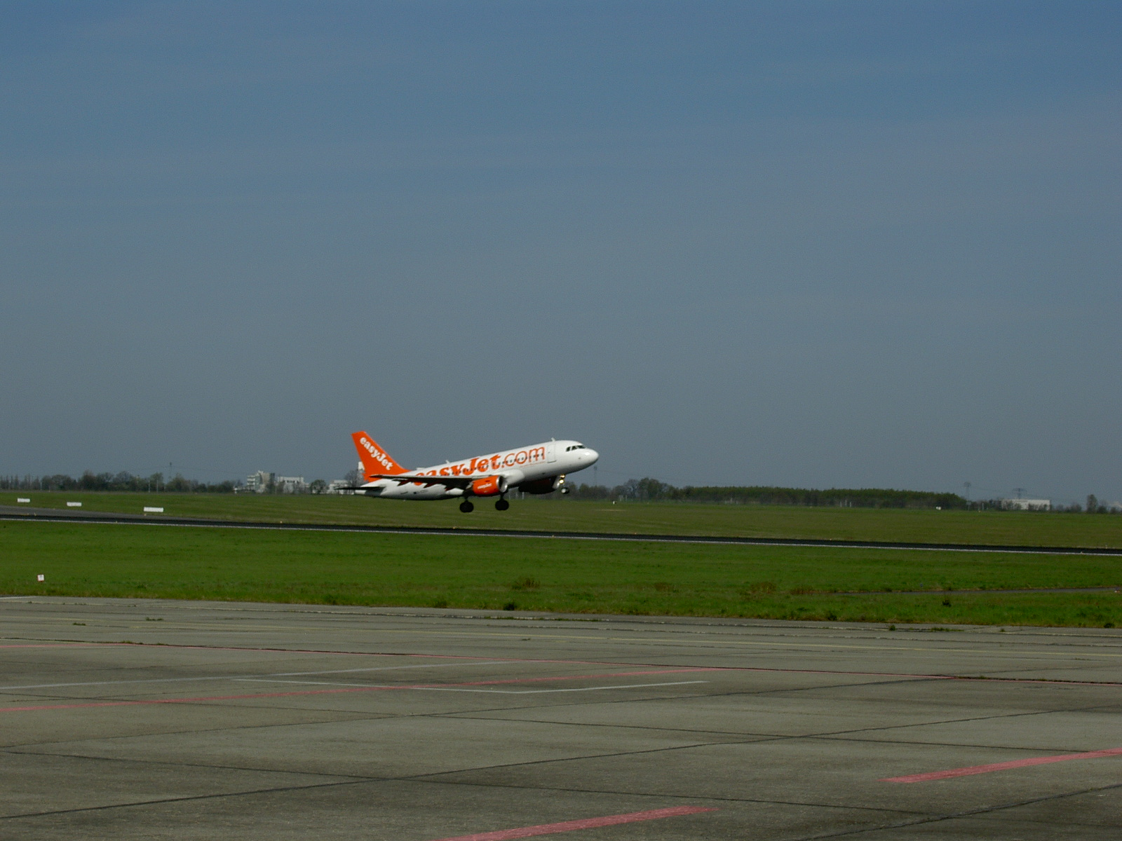 An easyJet plane is starting at airport Berlin-Schönefeld